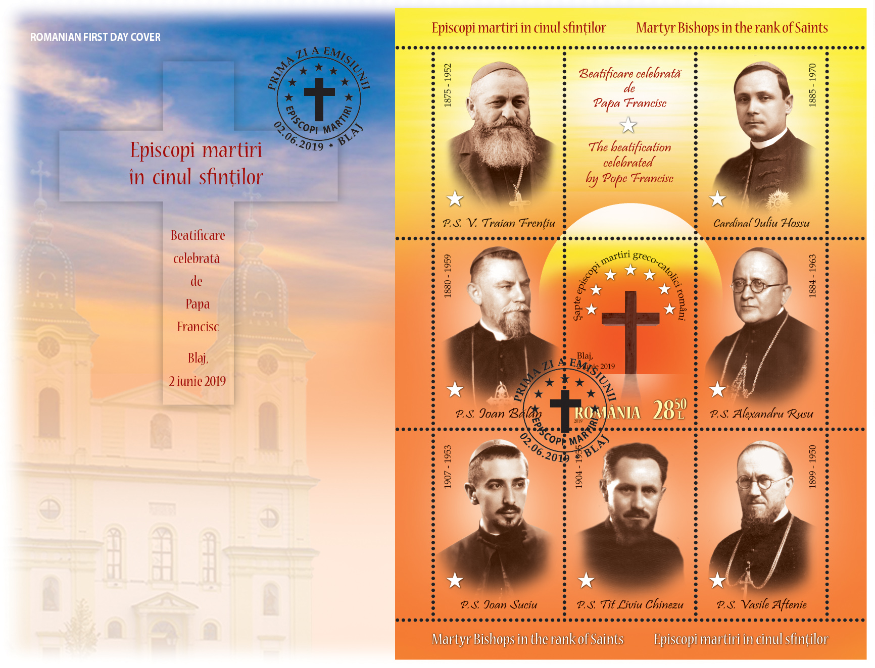 Martyr Bishops in the Order of Saints